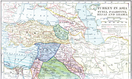 Map of Turkey in Asia, Syria, Palestine, Hejaz and Arabia by Frank Moore Colby